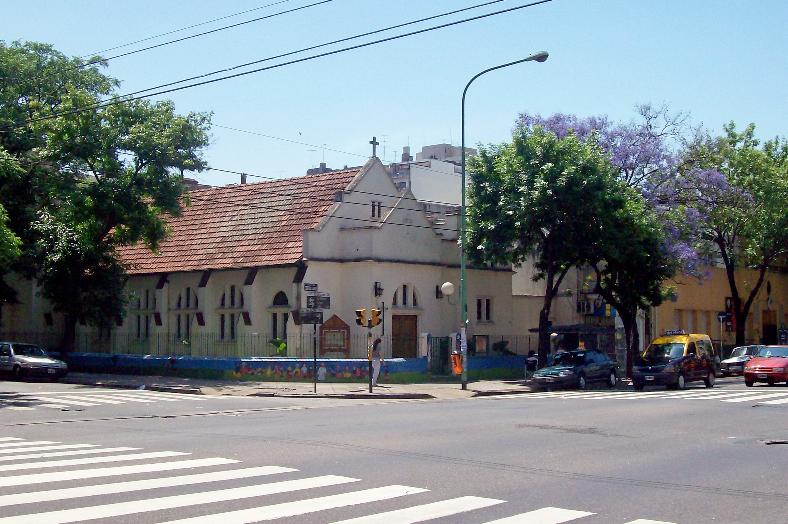 Federico Lacroze Avenue and Zapiola Street: evangelic church in Buenos Aires